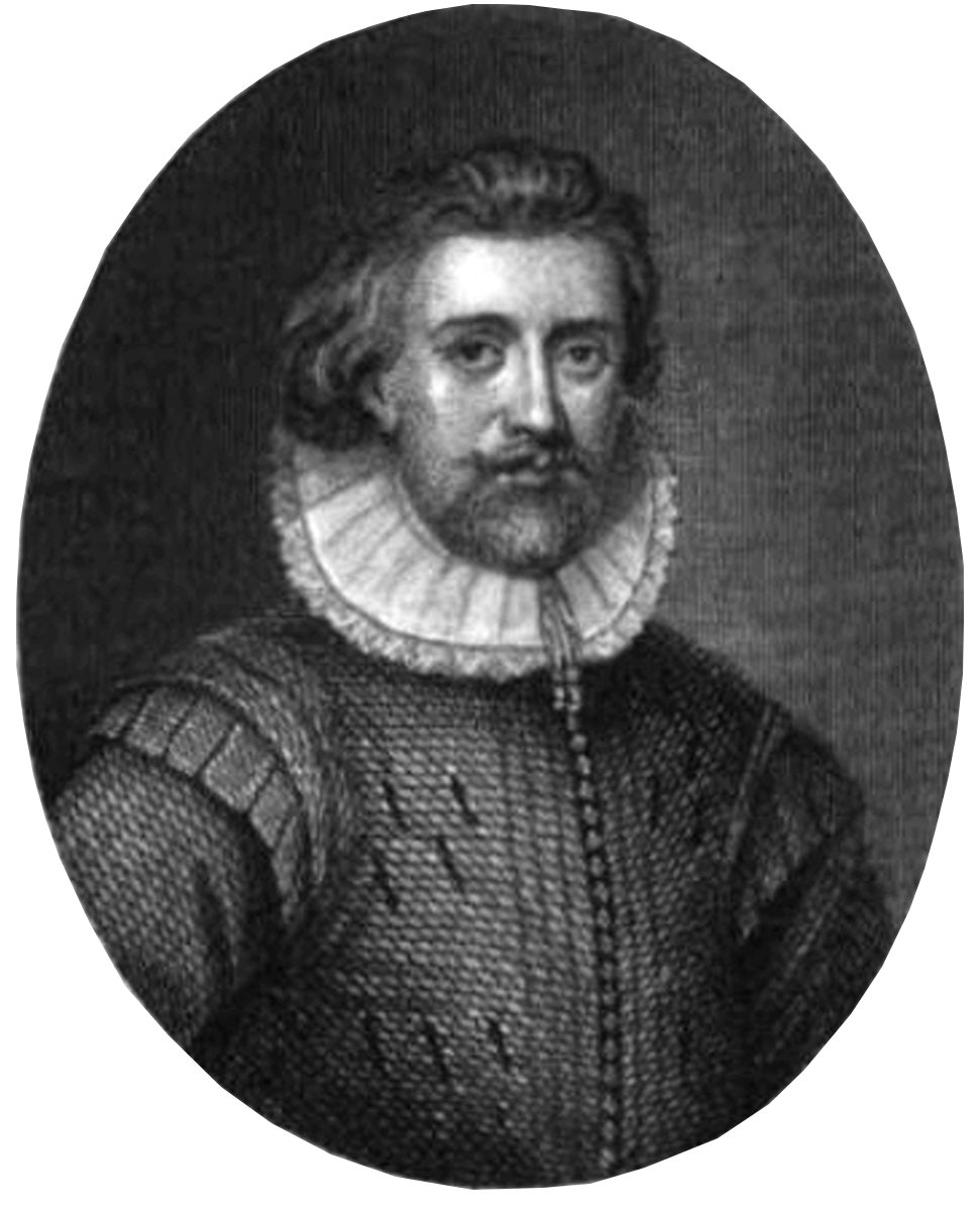 Thomas Craig (c.1538 – 1608)